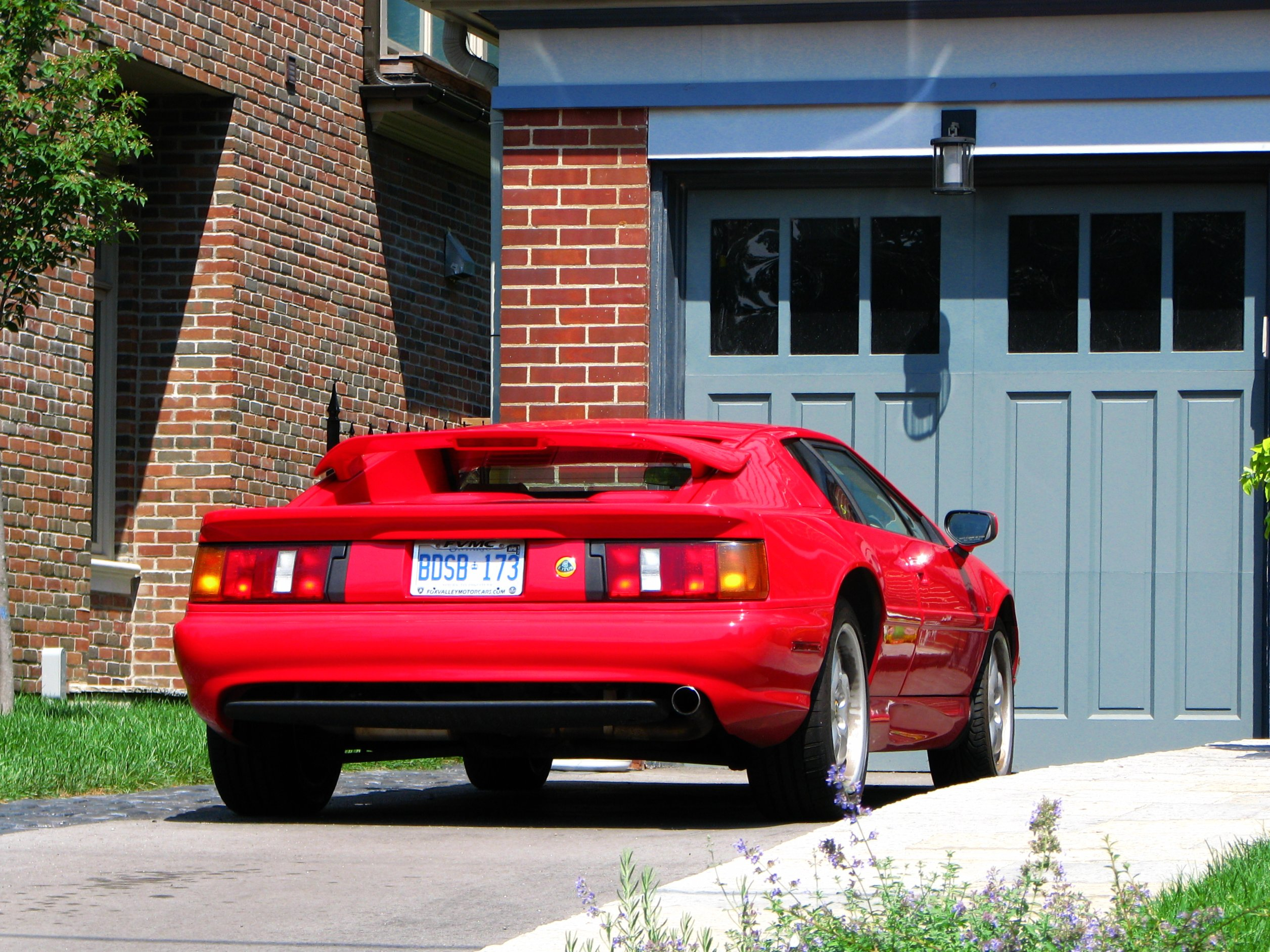 Second one in my photostream! This is more original though :)!